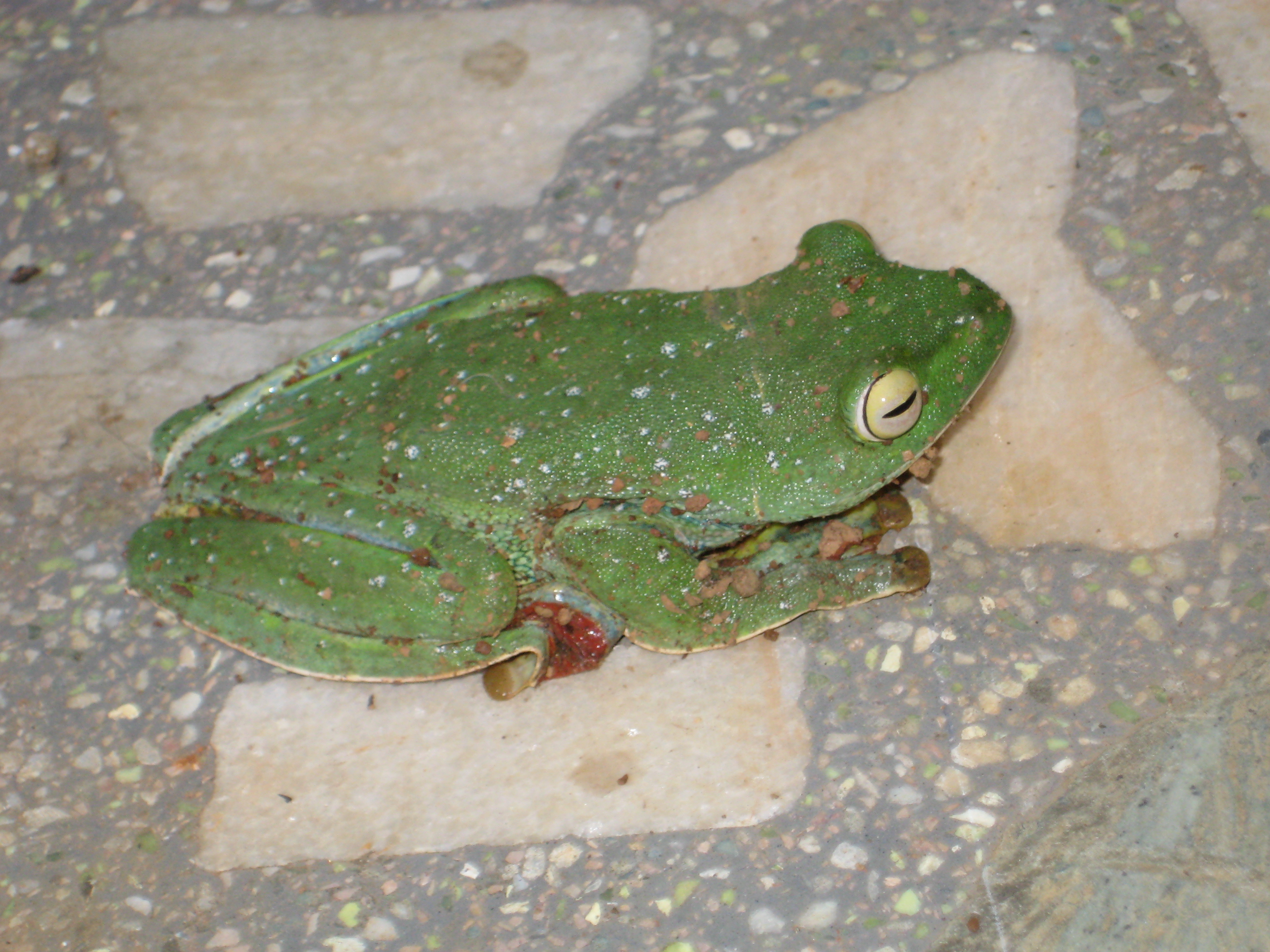 Malabar Flying Frog - Rhacophorus Malabaricus ഇളിത്തേമ്പൻ തവള അഥവാ പച്ചിലപ്പാറൻ തട്ടേക്കാട്, ഭൂതത്താൻകെട്ട് അണക്കെട്ടിന്റെ ഉൾപ്രദേശത്തുനിന്നും